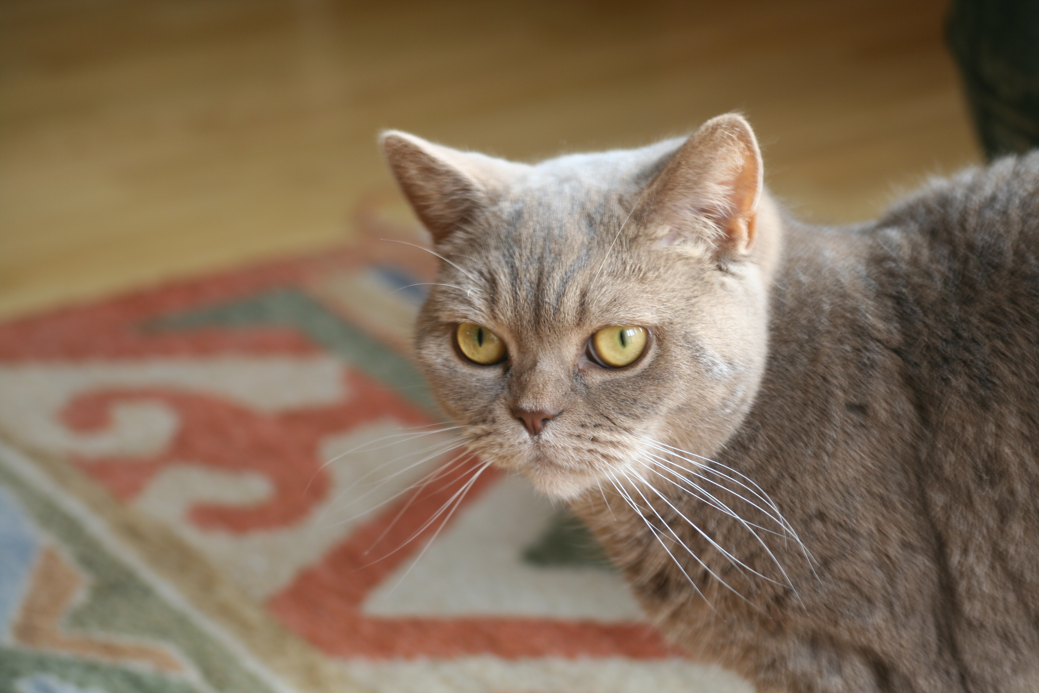 British Shorthair Cat, named "Klara", living in Tychy, Silesia.